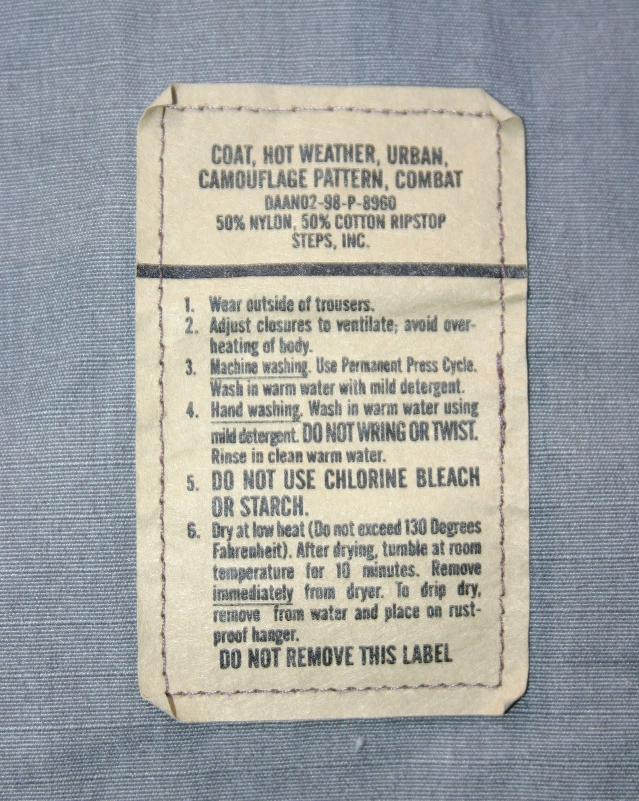 Detail of the original T-pattern coat's label. Those uniforms were used during the Operation Urban Warrior that happened in march 1999 in Oakland, CA.